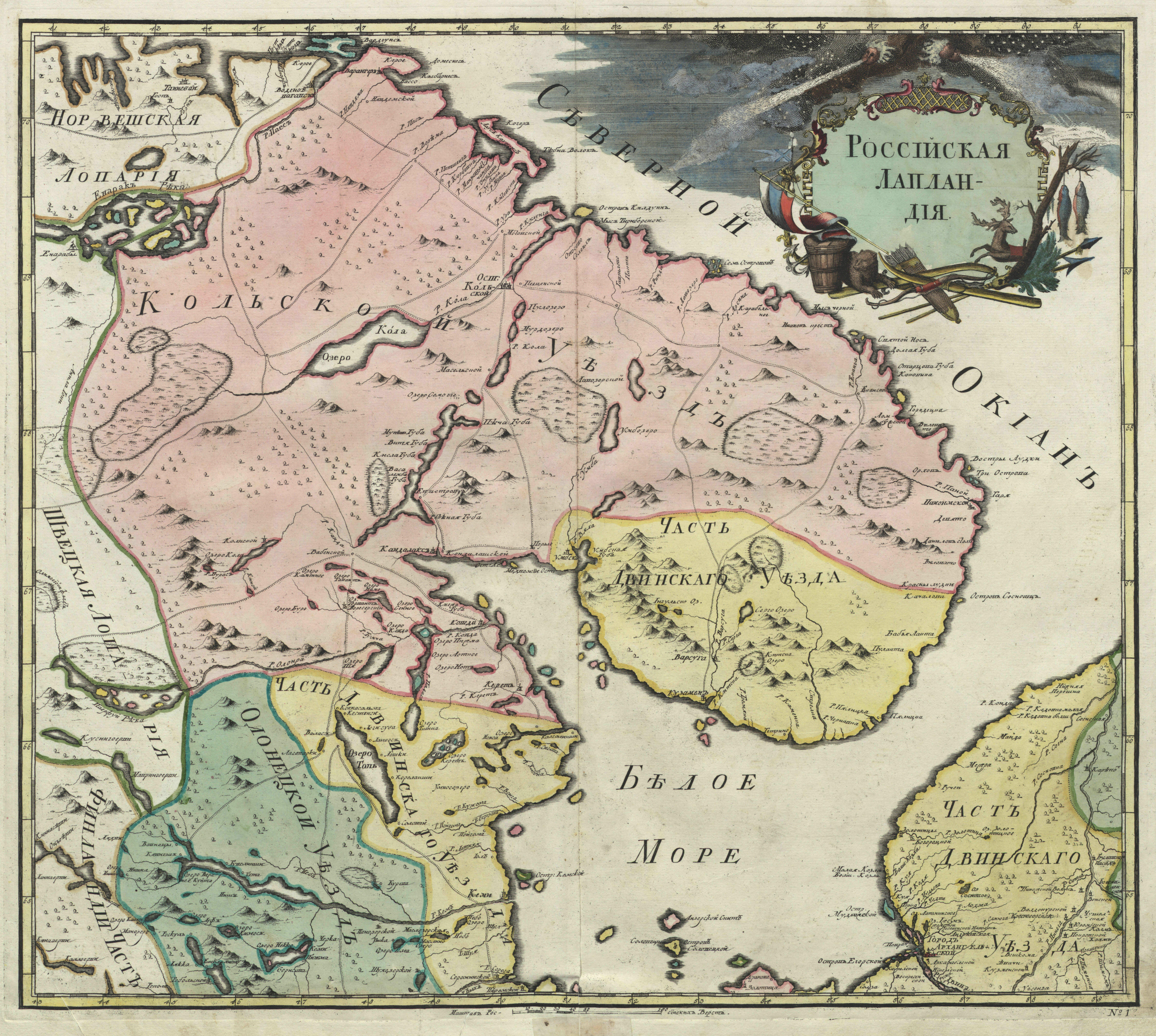 First official geographic atlas of the Russian Empire (1745). Map of Russian Lapland. Hand-coloured copper engraving.